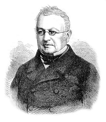 Louis Adolphe Thiers